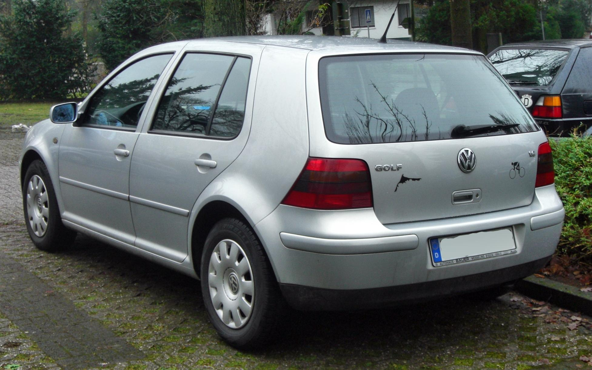 Description: VW GOLF IV Source: Matthias Other Version(s)